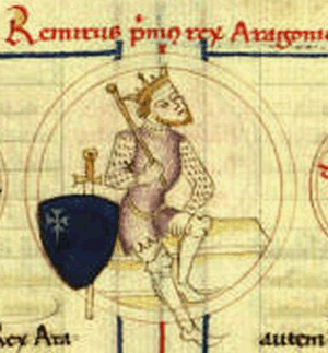 Genealogies dels comtes de Barcelona - Ramiro 1